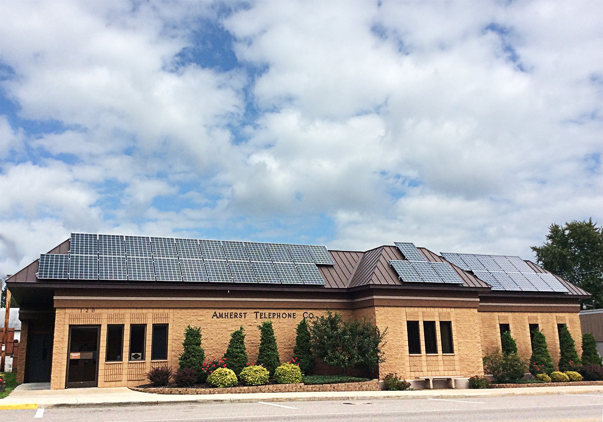 This is the main office for the Amherst Telephone Company in Amherst, Wisconsin.